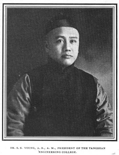 Hsiung Chung-Chih a.k.a Samuel S Young, Chinese name 熊崇志 (Xiong Chongzhi) taken in 1911 when he had just been appointed the President of a new Engineering College in Tangshan.